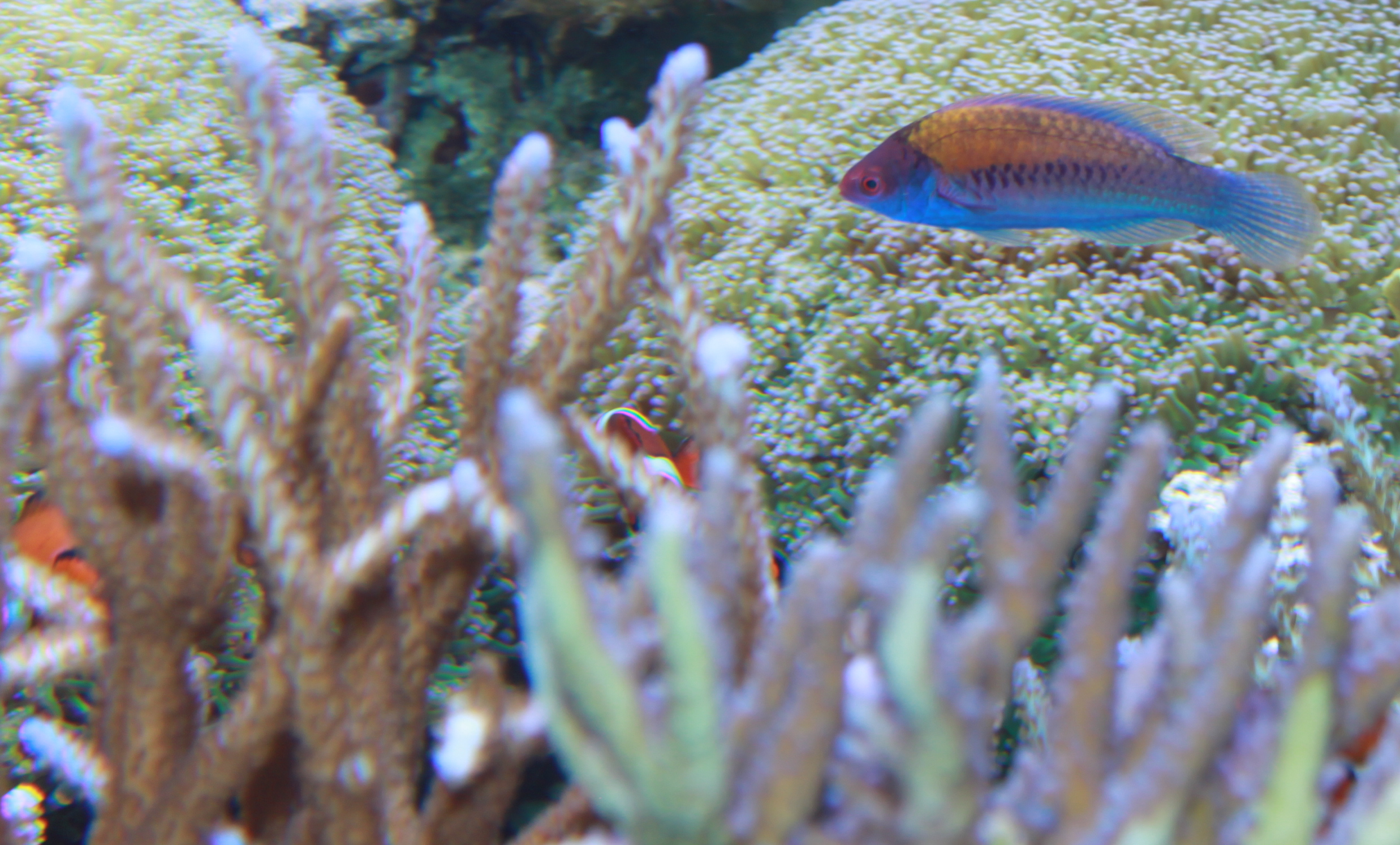 Bluehead Fairy Wrasse – Cirrhilabrus cyanopleura